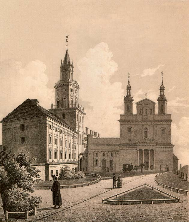 The Cathedral Square in 1860.